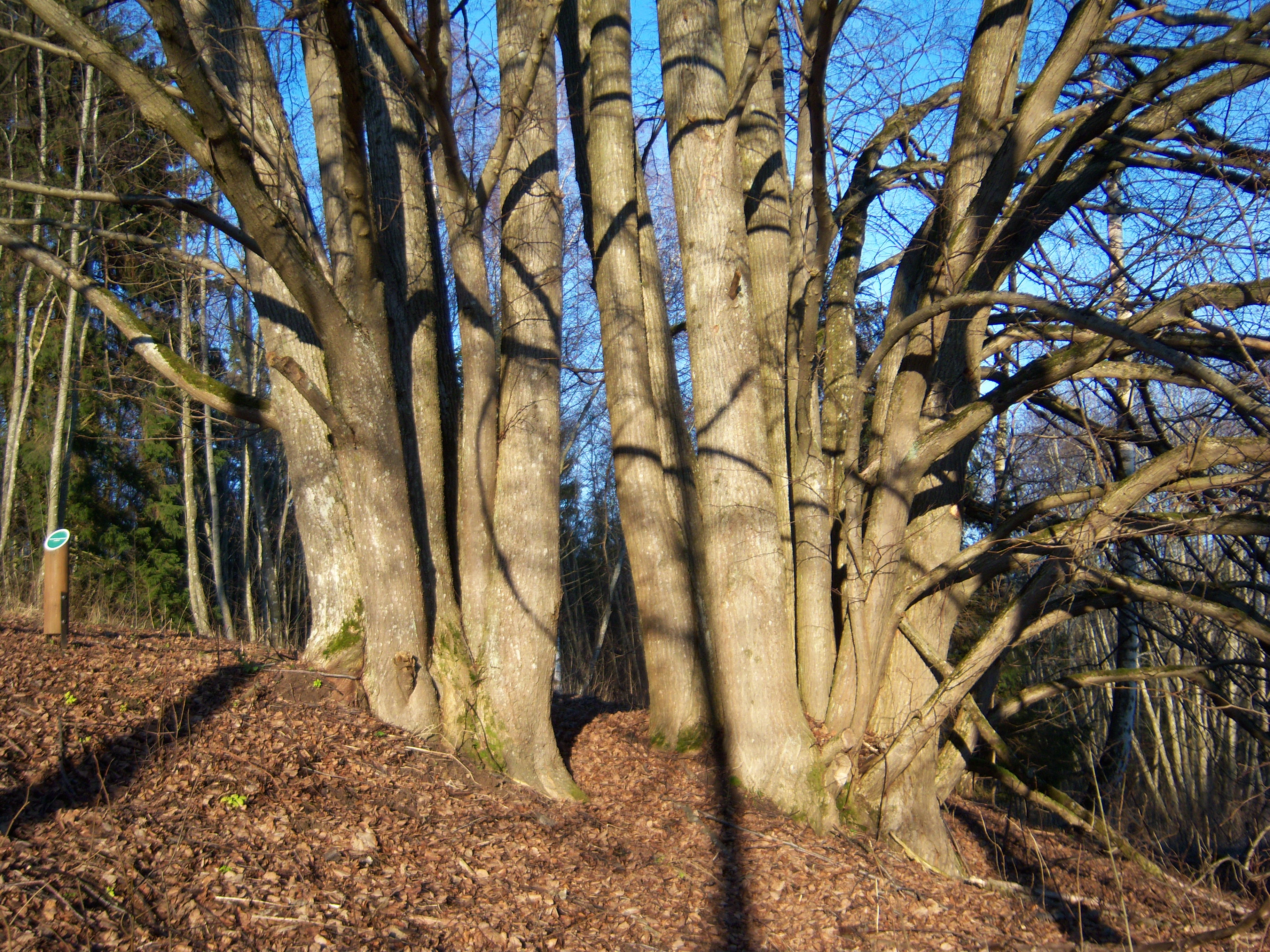 Padubysys Hillfort, Raseiniai District, Lithuania